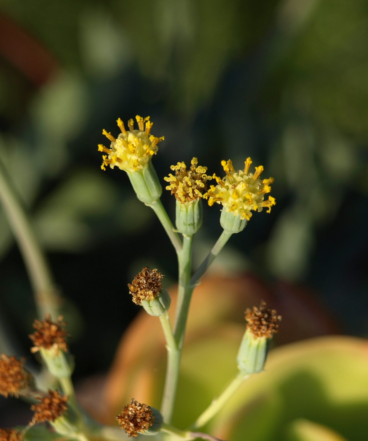 South Miami, Florida, USA.